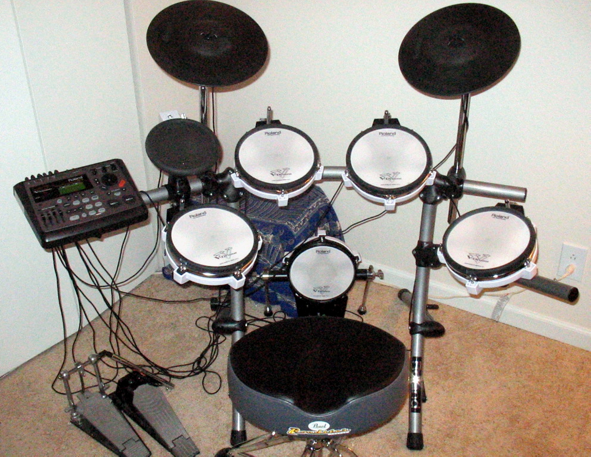 $1500 OBO w/ Roadster D-2000 Throne $1400 OBO w/o Roadster D-2000 Throne Both include free Tama Bass Drum pedal